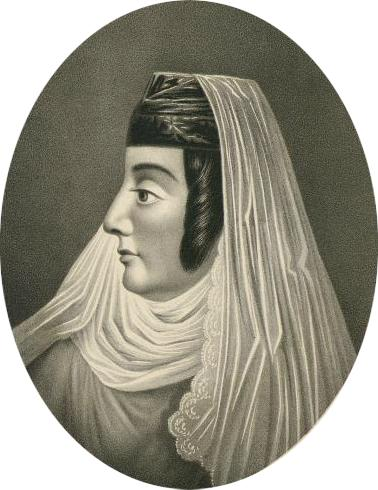 Princess Anna Eristavi of Ksani, wife of Prince Parnaoz of Georgia.